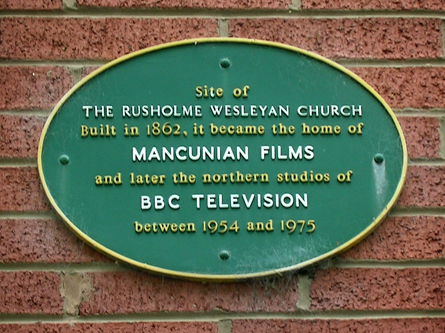 Yep its the site of that converted church for BBC's now defunct Top Of The Pops